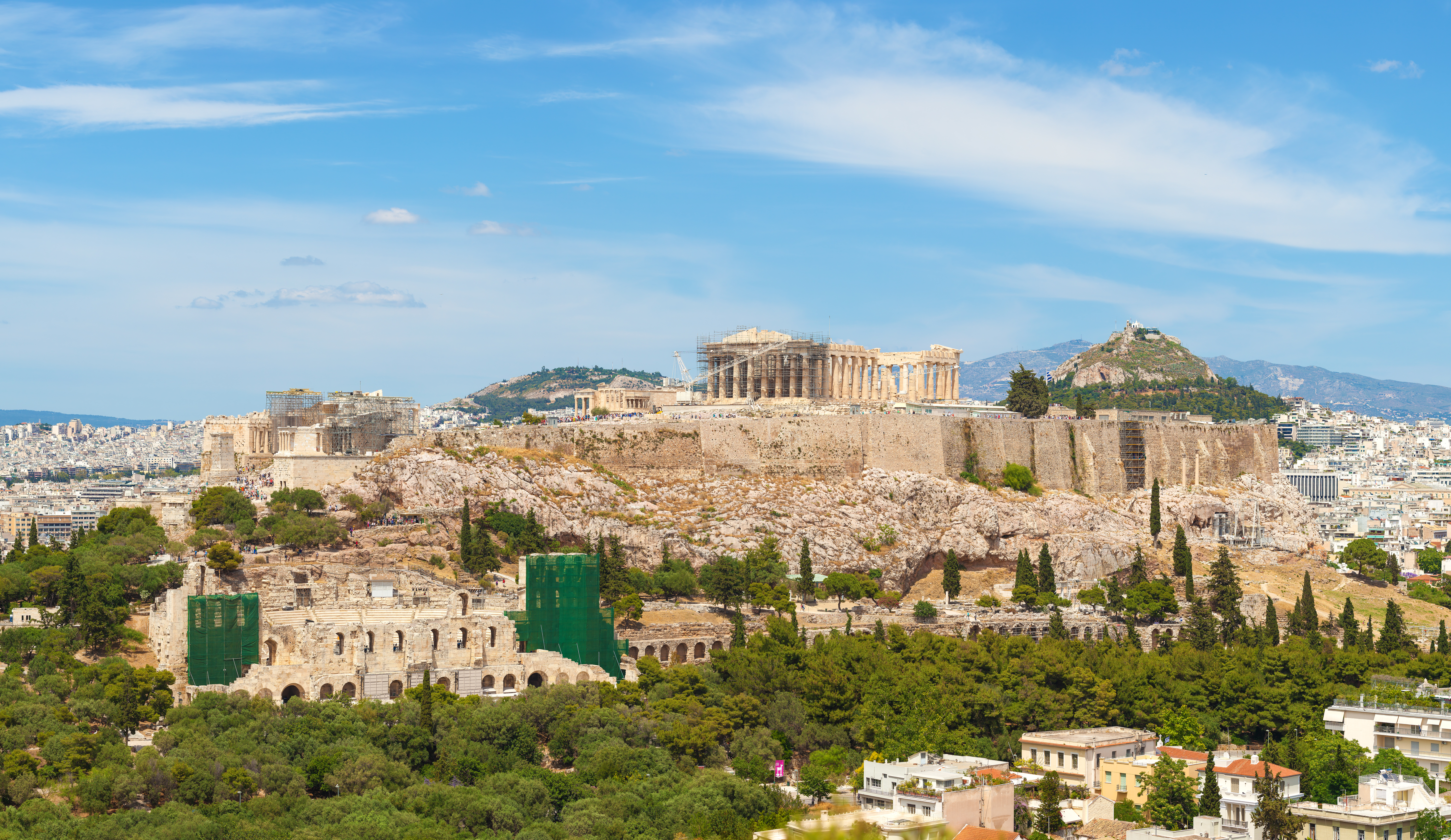 Acropolis in Athens, Greece